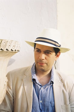 A portrait of the British scholar and author, Bijan Omrani.